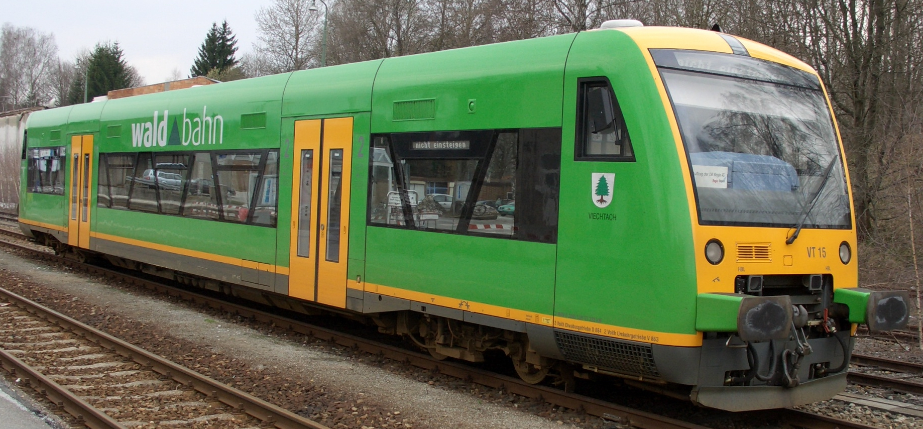 VT 15 railbus of the Bavarian Forest Railway (Bayerische Waldbahn) on 19.4.2006 at Zwiesel station, Bavaria, Germany.